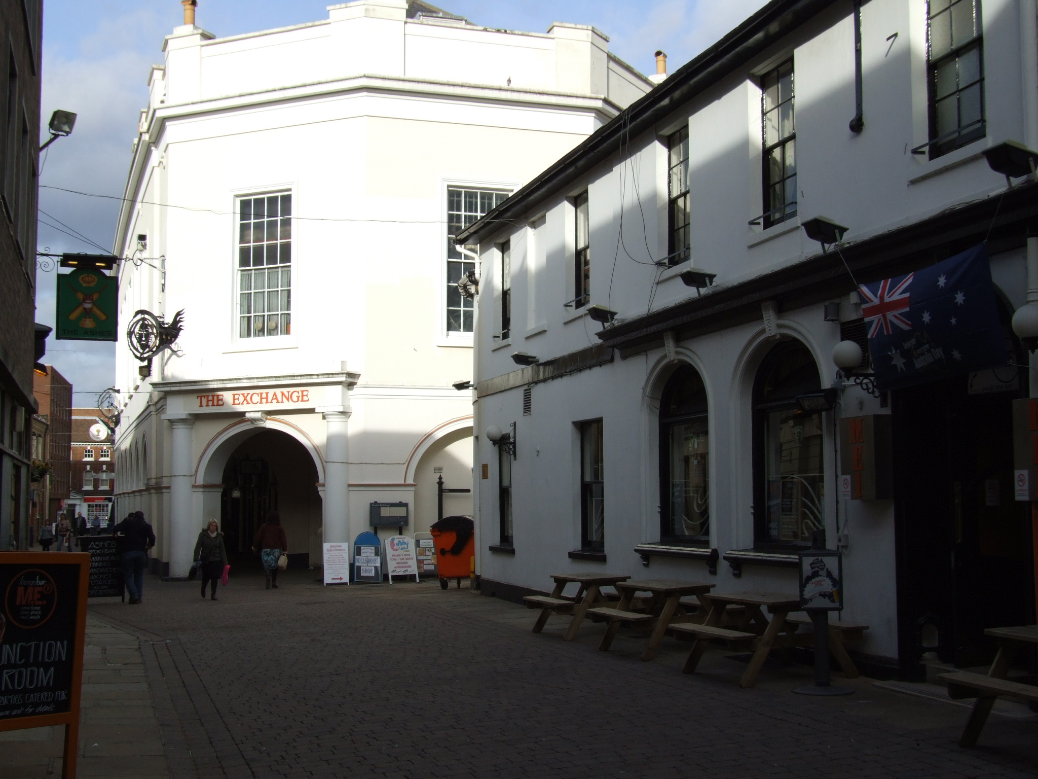 Corn Exchange theatre. Maidstone. - Google Maps - Google Earth